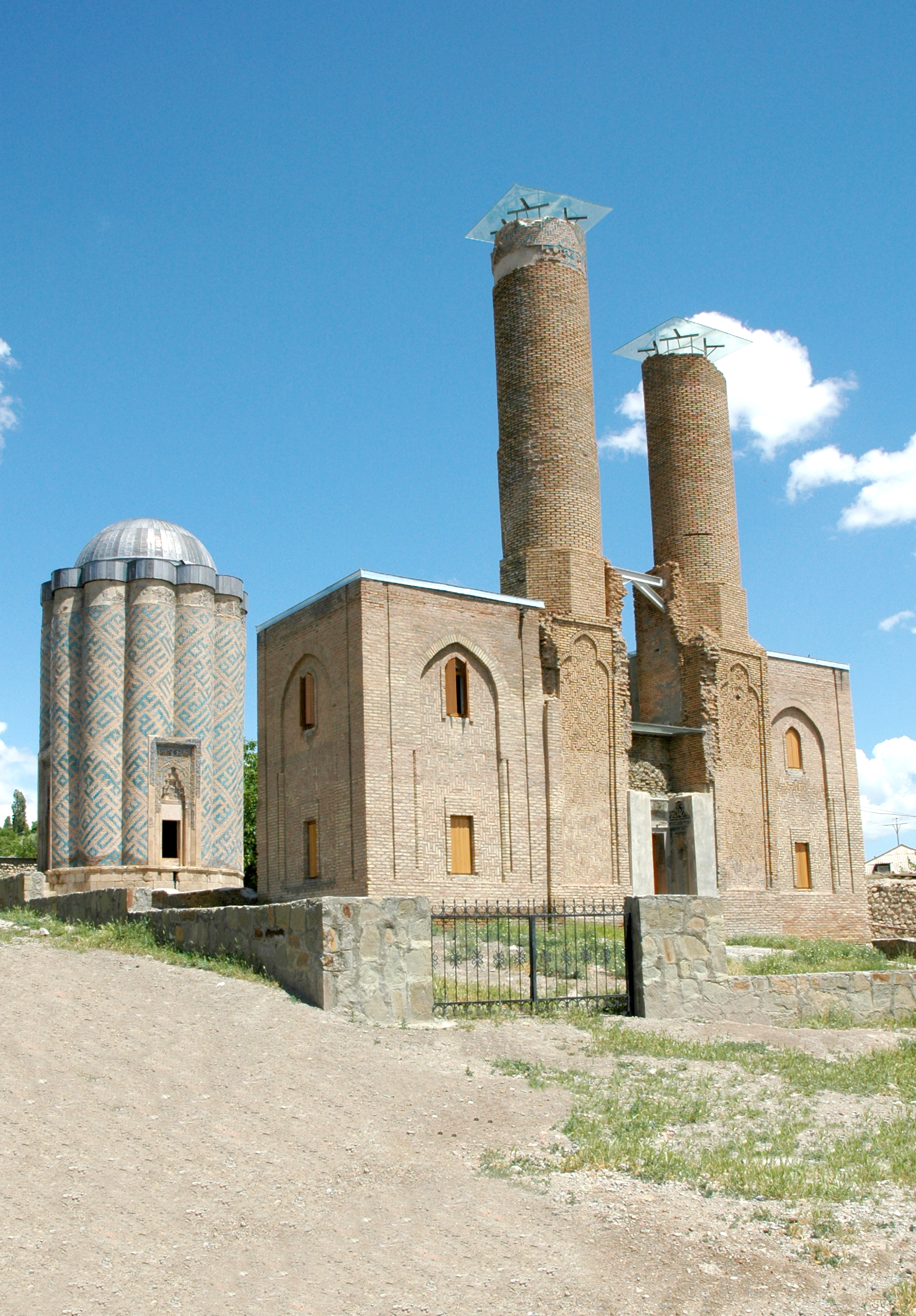 Garabaghlar mausoleum and mosque in Nakhchivan